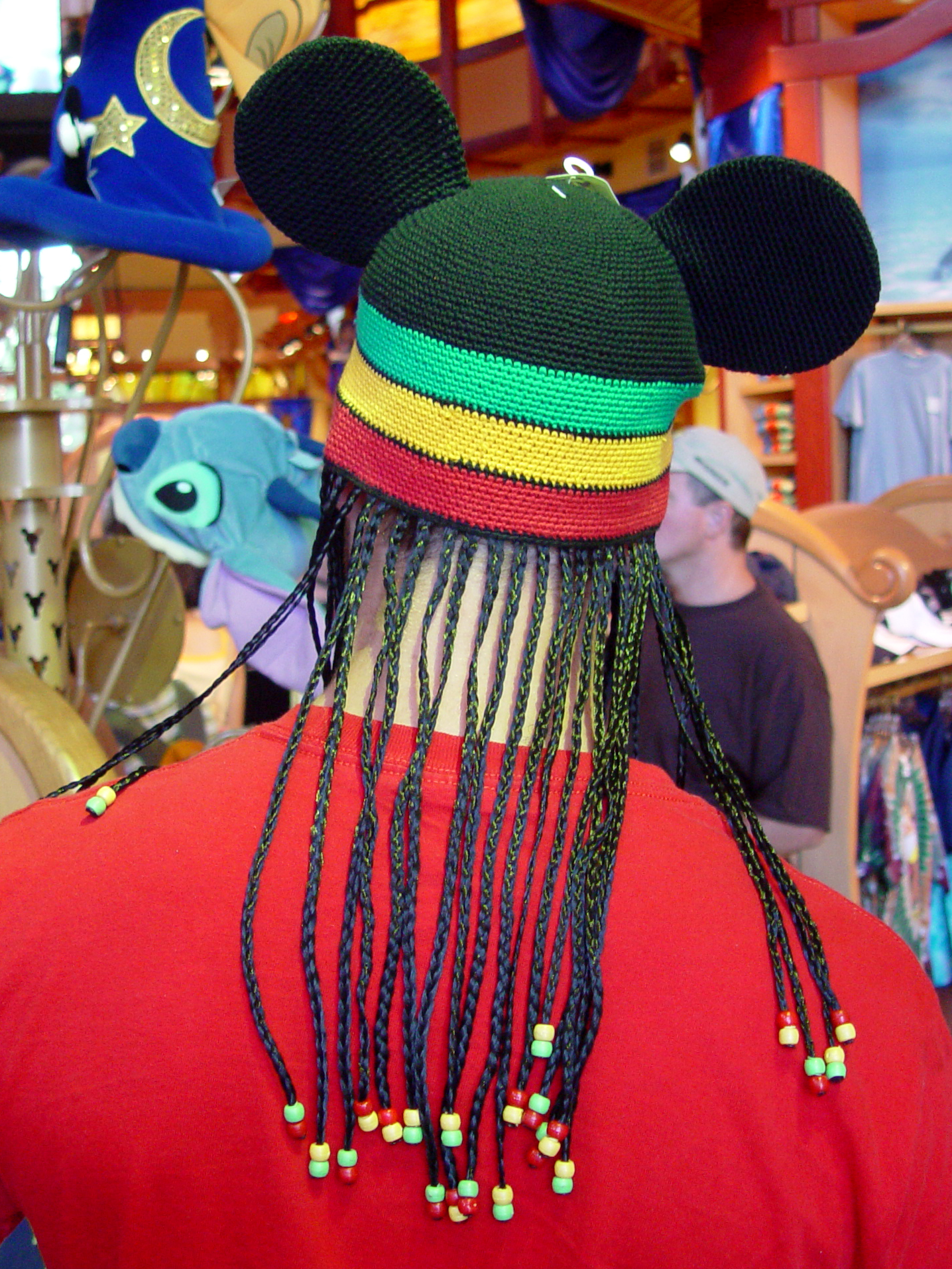 Cultural appropriation at the Disney store, Orlando Florida.